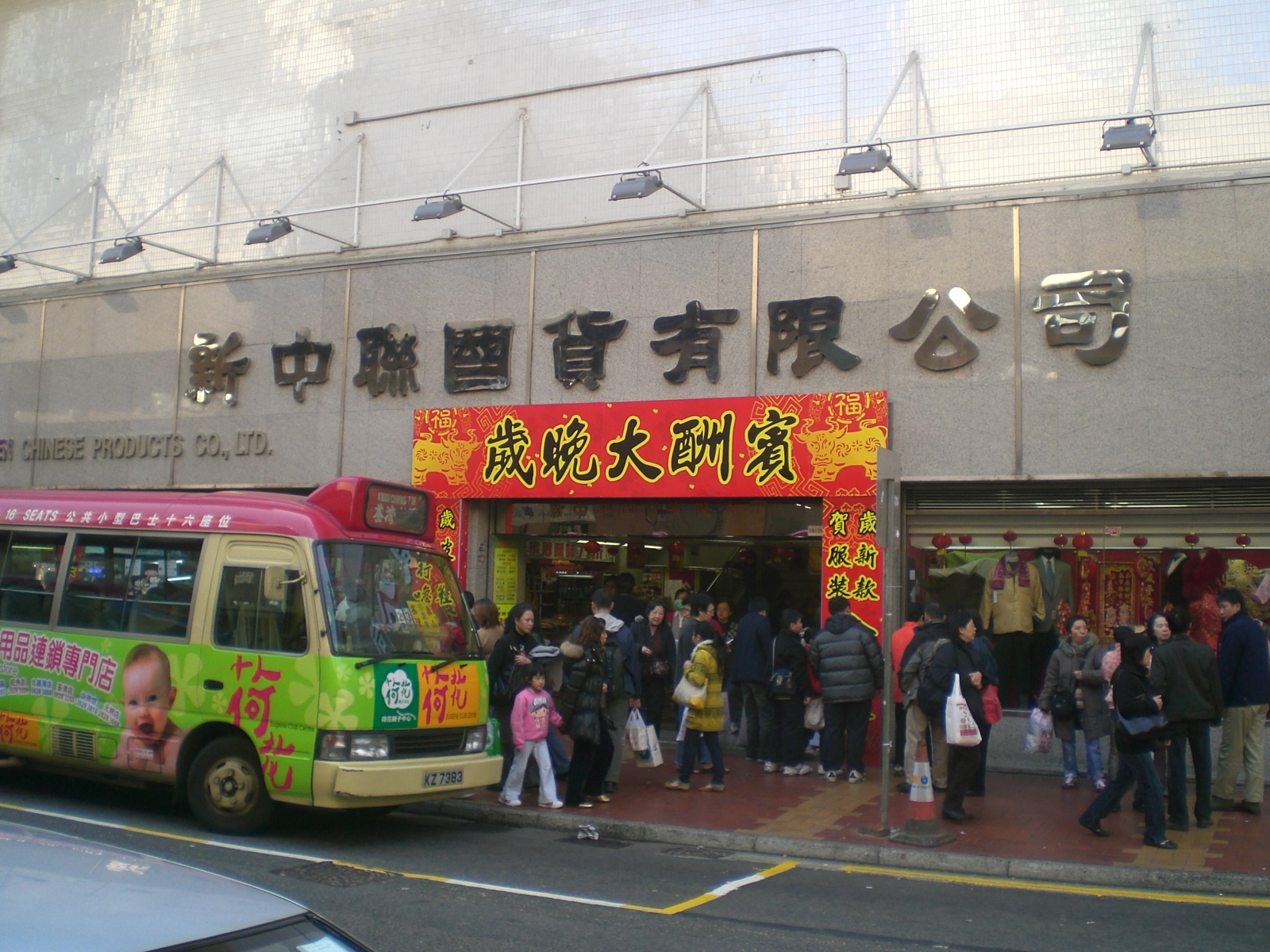 荃灣 海壩街 新中聯國貨有限公司